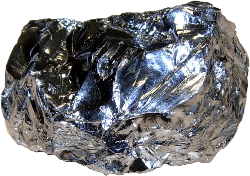 Close up photo of a piece of purified silicon.